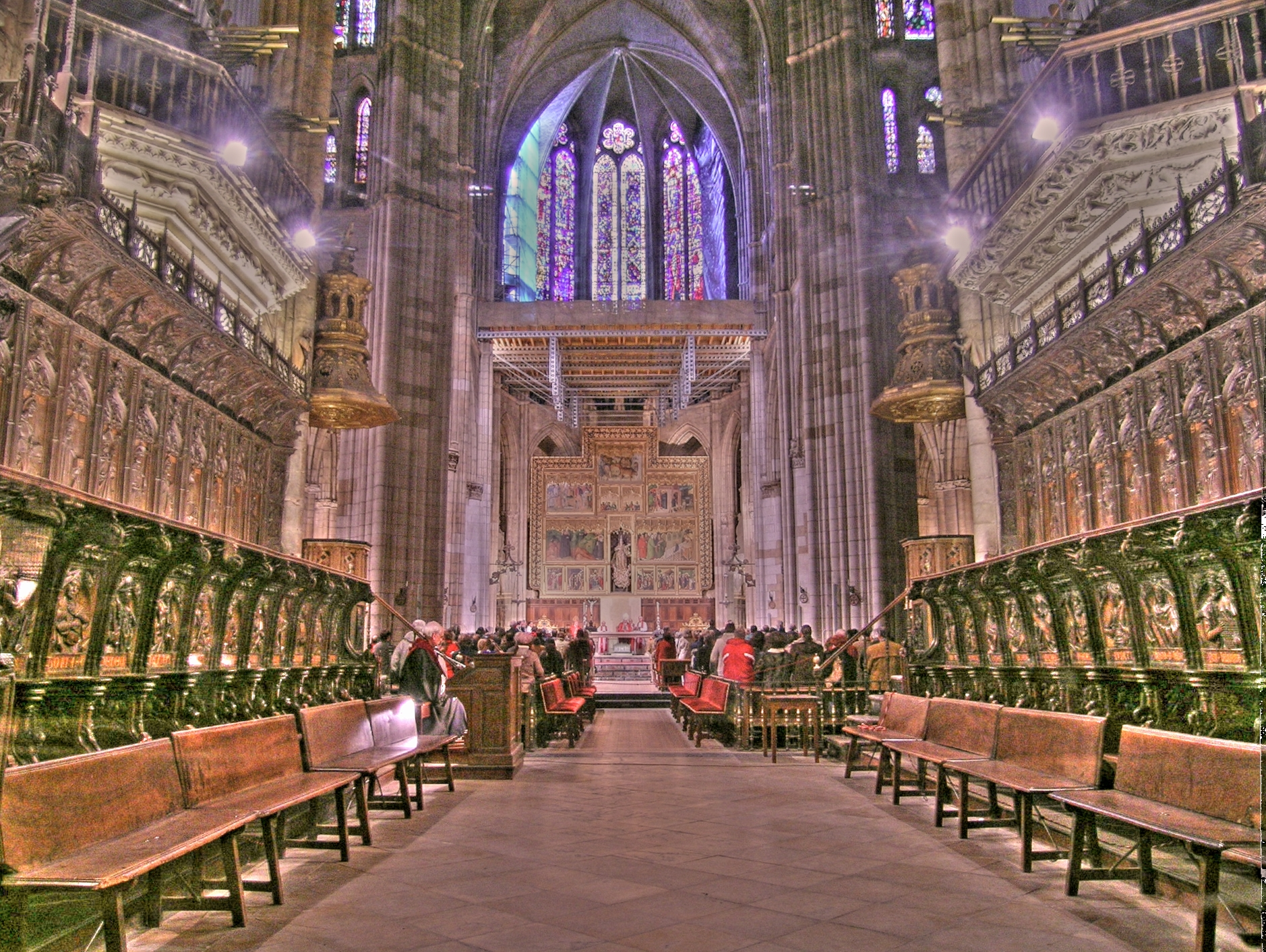 Inside the cathedral of Leon, in Spain. This is the rendered version of an HDR picture I have created using two different shots, taken with two different exposures. I aligned those pictures using autopano and hugin, then I created the HDR and tone-mapped it using qtpsfgui. I have used the Fattal '02 algorithm with the following settings: alpha=0.01 beta=0.8 saturation=0.5 pregamma=0.9 postgamma=0.5 Then I post-processed it with Gimp